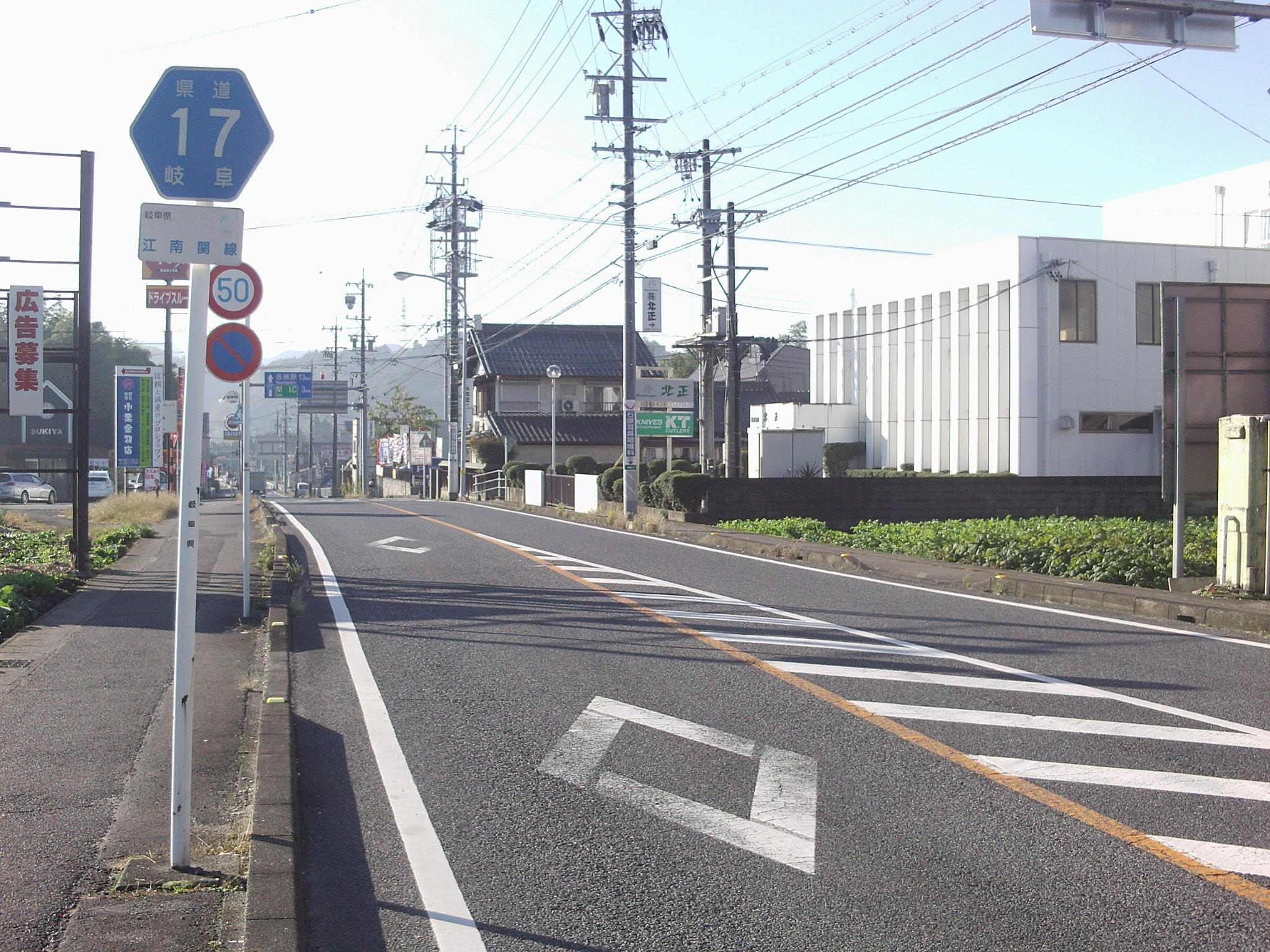 The Gifu Prefectural Road Route 17 in Sakaemachi 5-chome, Seki City